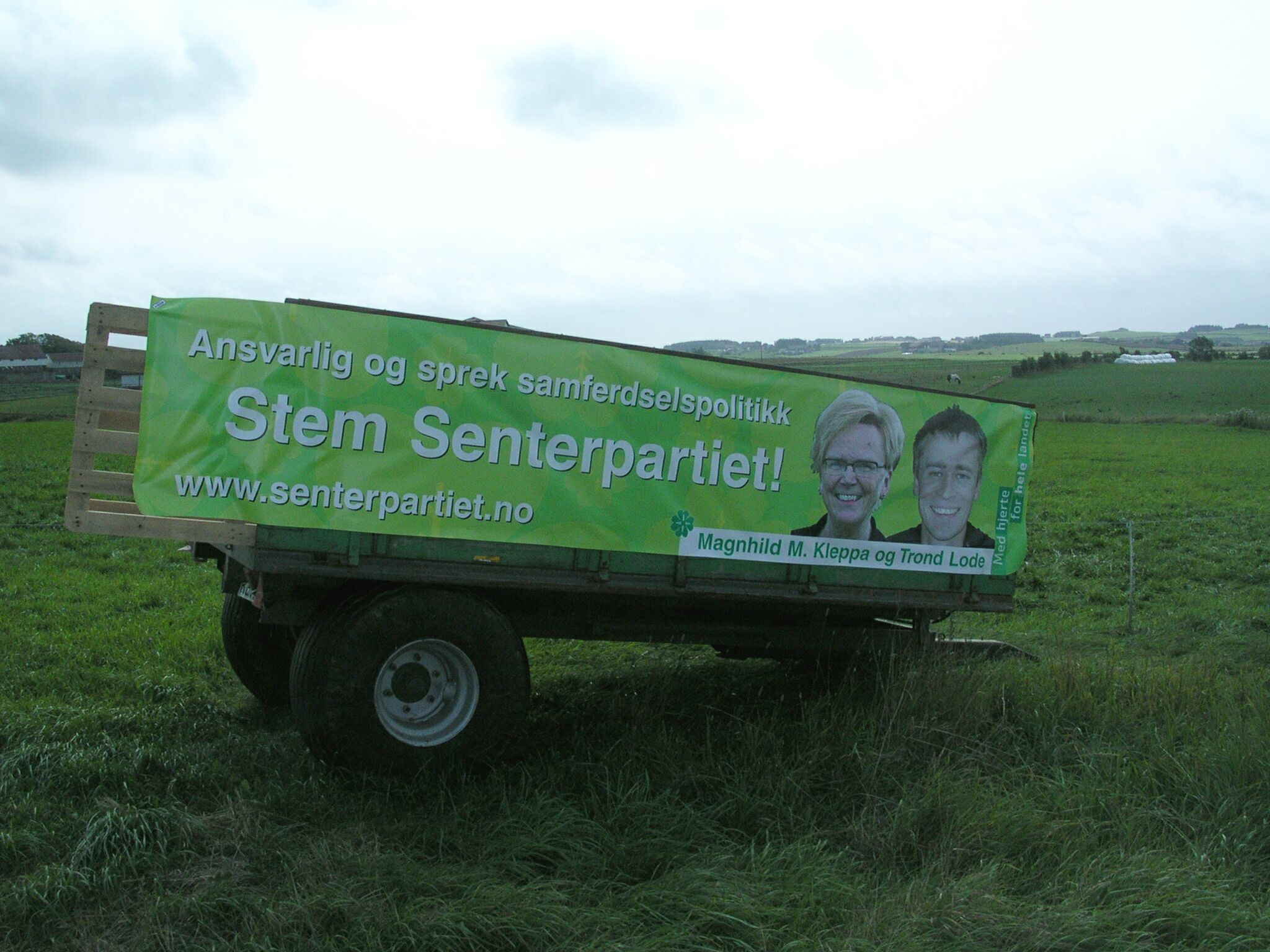 From Norwegian Storting elections of 2005. Senterpartiet campain. Picture taken by User:Gunnernett